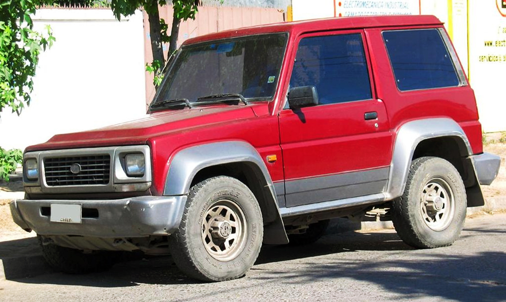 Daihatsu Rocky SE 2.8 TD 1996